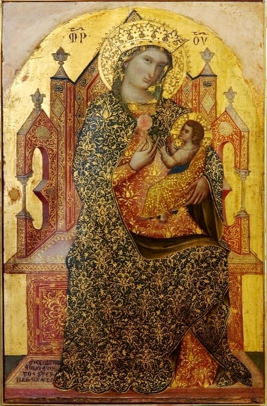 Stefano Veneziano. Madonna and Child. 1369. Museo Correr, Venice